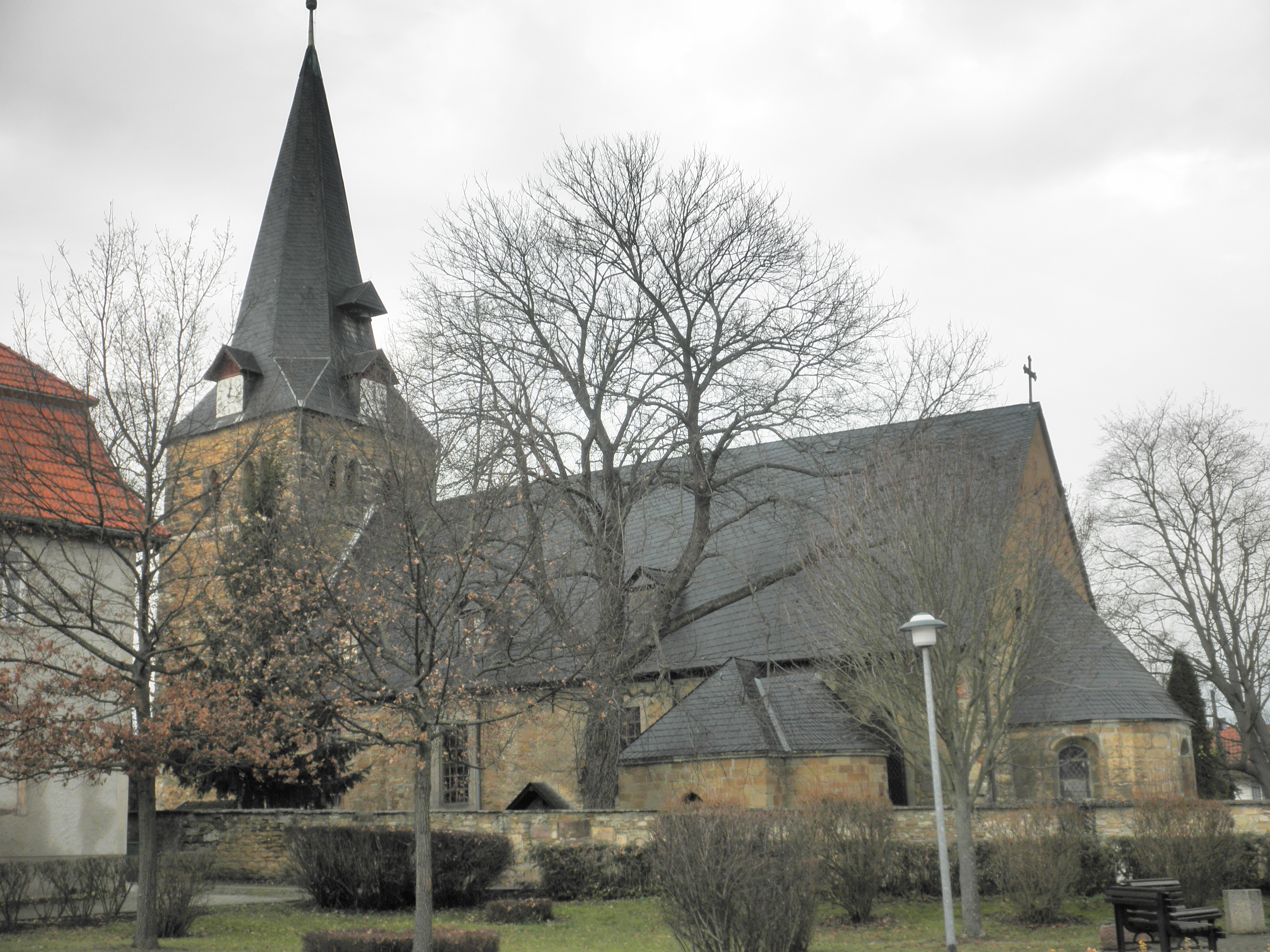 Church in Leubingen (Sömmerda) in Thuringia